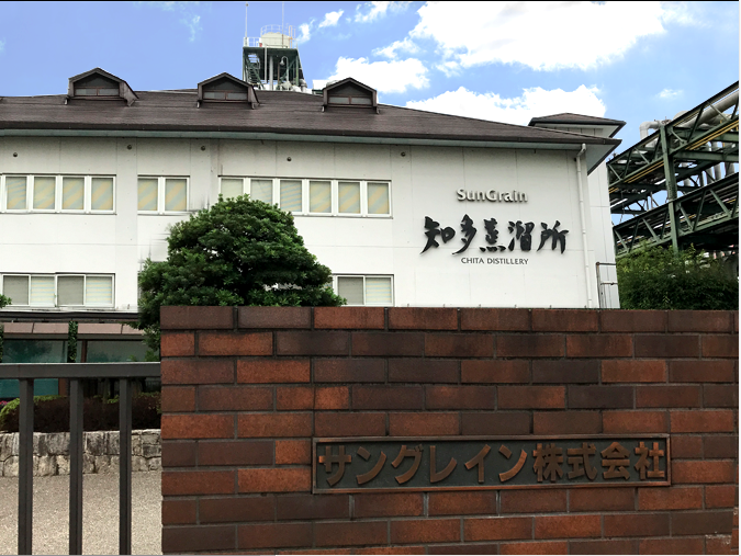 Main office at Suntory's Chita whisky distillery at the Port of Nagoya's SunGrain facility. This is where Chita single grain whisky is produced.